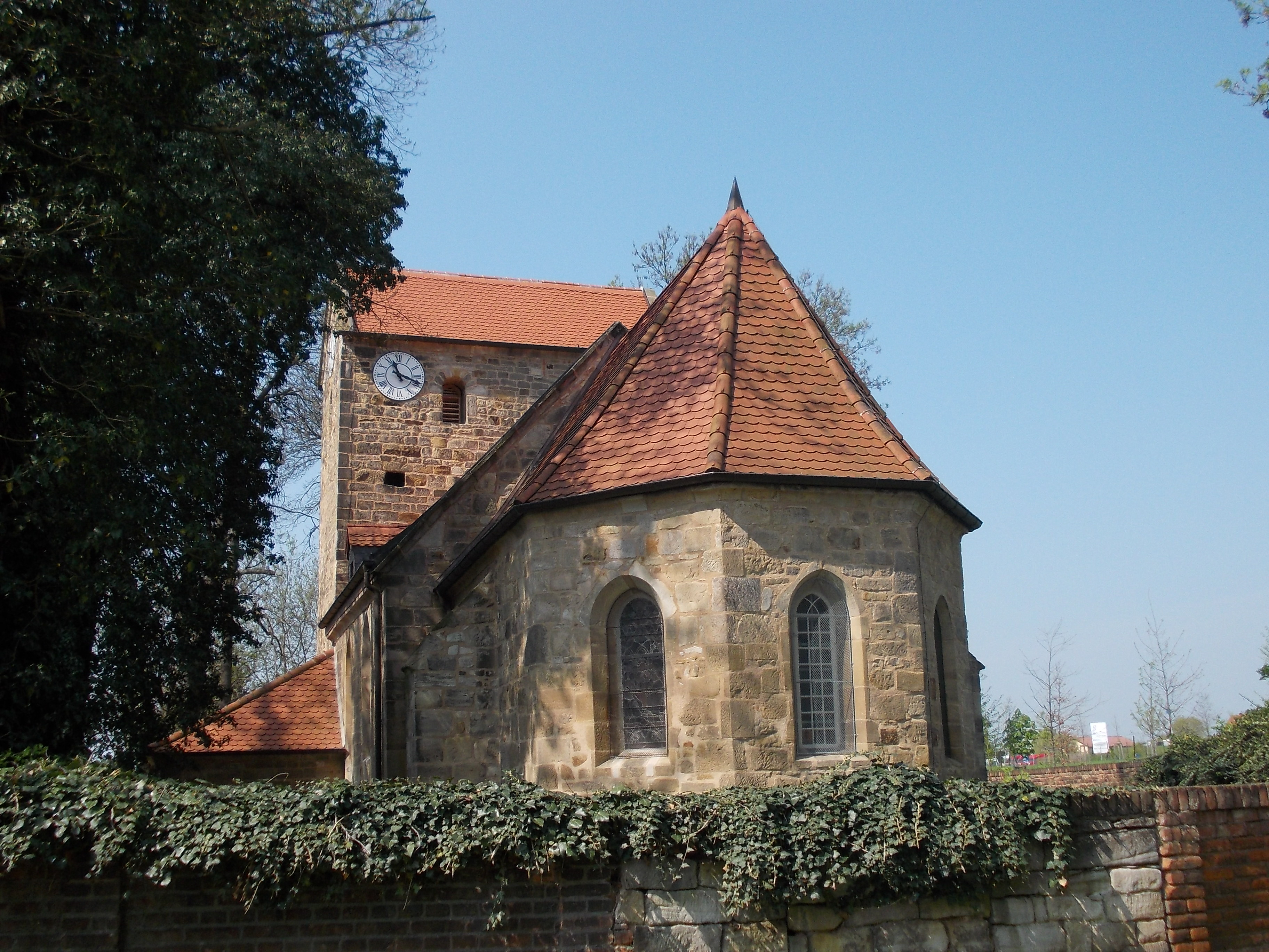 St. Mary's Church in Zorbau (Lützen, district: Burgenlandkreis, Saxony-Anhalt)